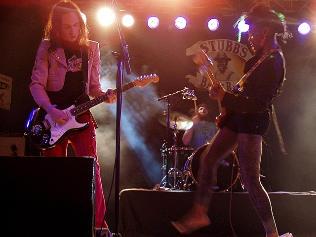 Shingai Shoniwa and "Dan Smith" of Noisettes @ Stubbs BBQ SXSW March 16, 2006